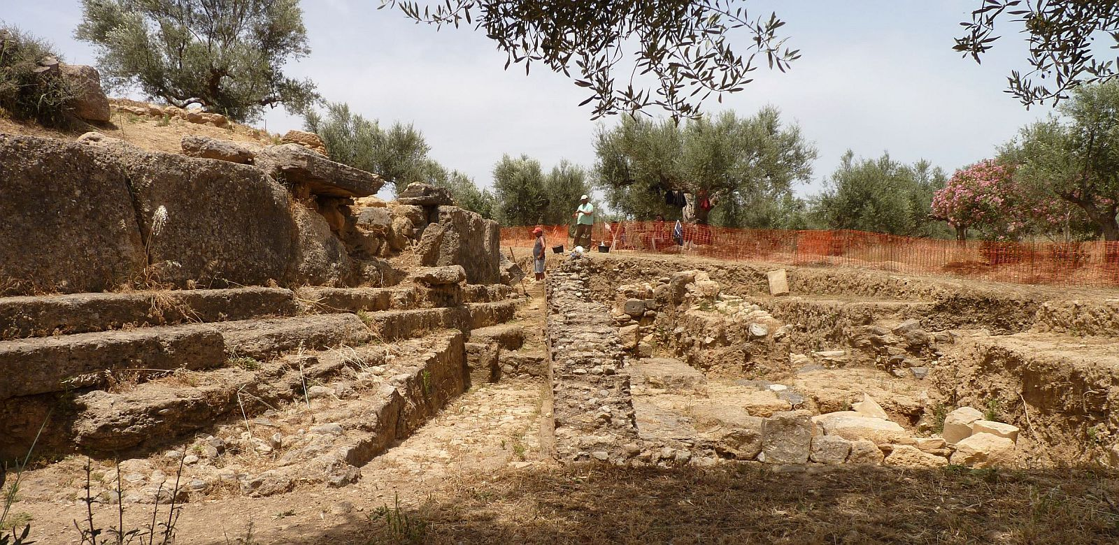 Sparta (Doric Greek: Σπάρτα, Spártā; Attic Greek: Σπάρτη, Spártē), or Lacedaemon, was a prominent city-state in ancient Greece, situated on the banks of the Eurotas River in Laconia, in south-eastern Peloponnese. You can use the images for free. But a link to - I would be happy :)